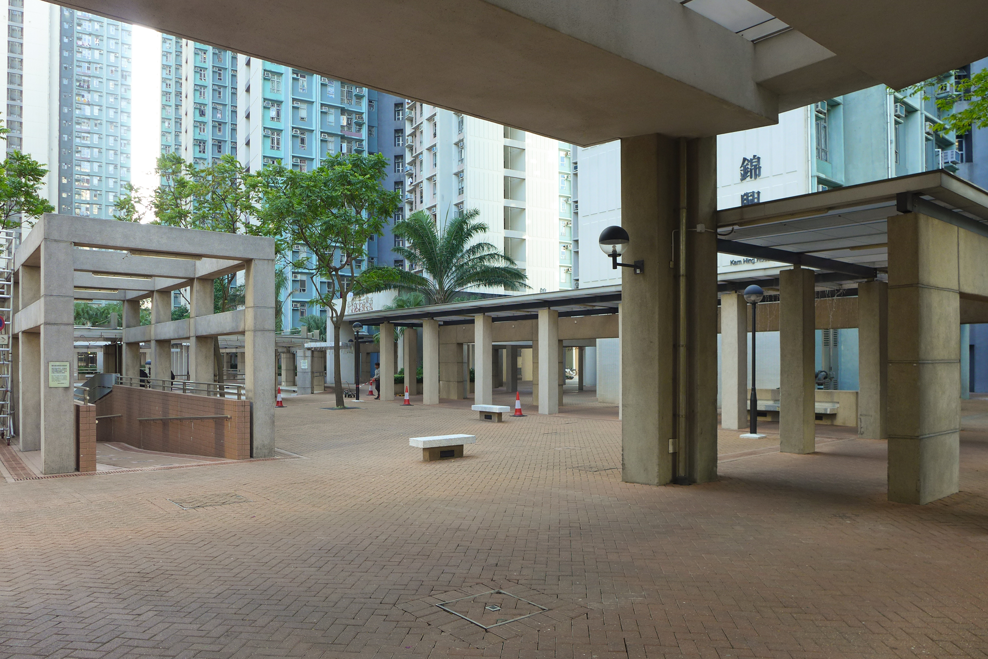 Kam Tai Court Coverway